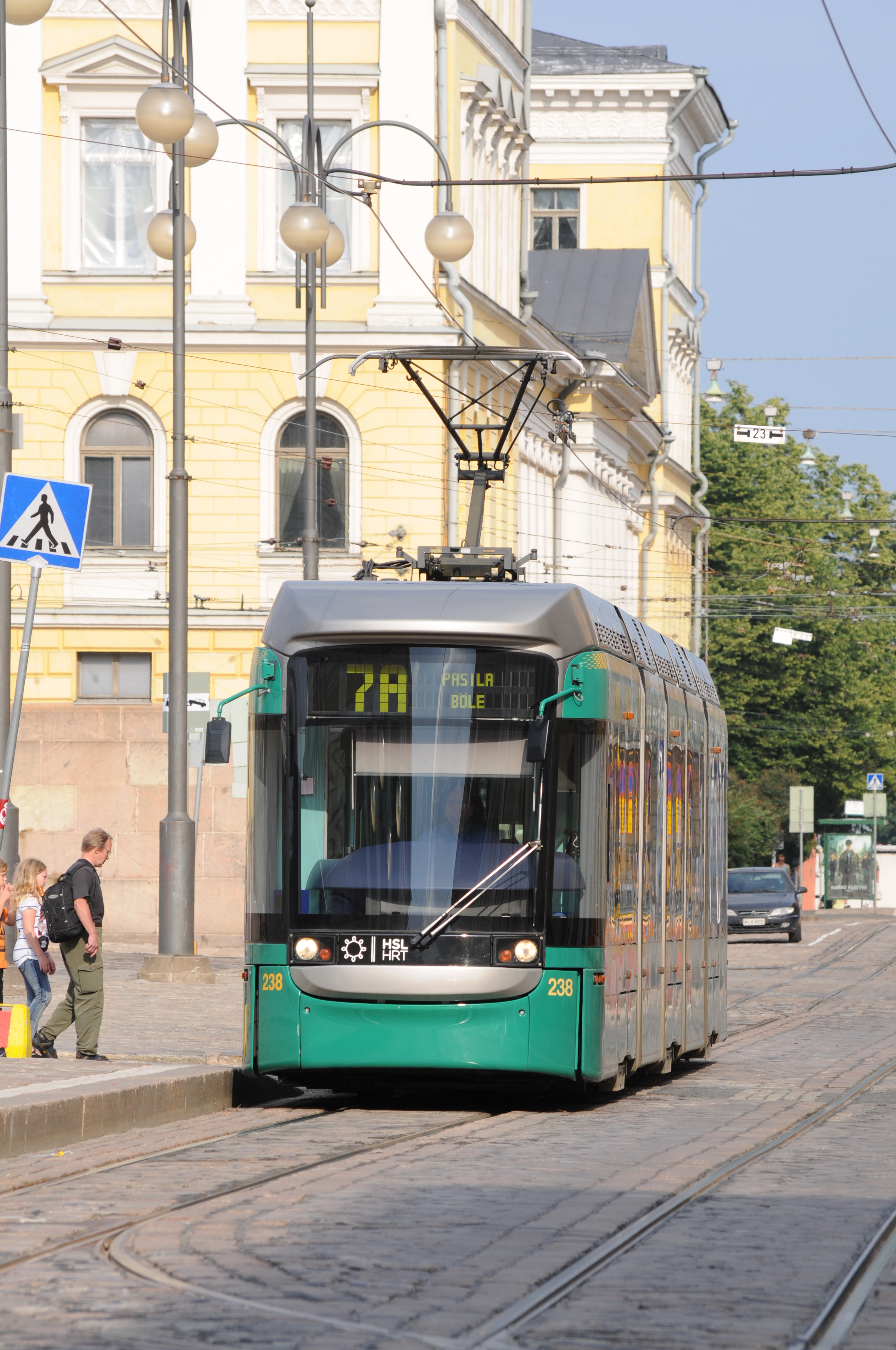 Helsinki Variotram Line 7